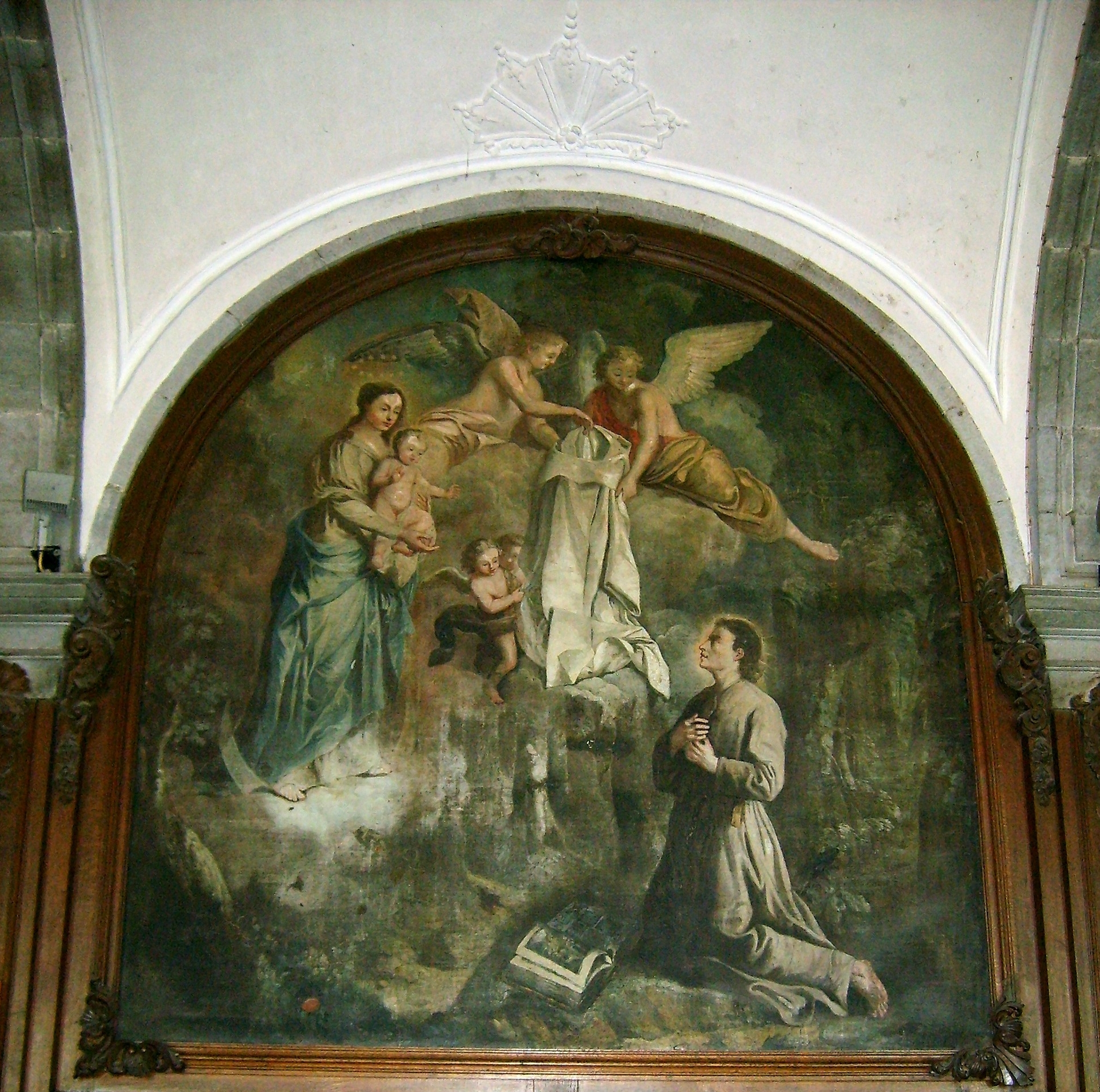 Bonne-Espérance Abbey, Vellereille-les-Brayeux (Belgium). Apparition of the Virgin Mary to Norbert of Xanten, one of the five scenes describing saint Norbert's life in the refectory of Bonne-Espérance abbey. This canvas was painted by Bernard Fromont (1715-1755) from Valenciennes, adapted from Corneille Galle's engravings (Vita sancti Norberti, 1622). (Height: 2.80 metre; width: 1.30 metre).